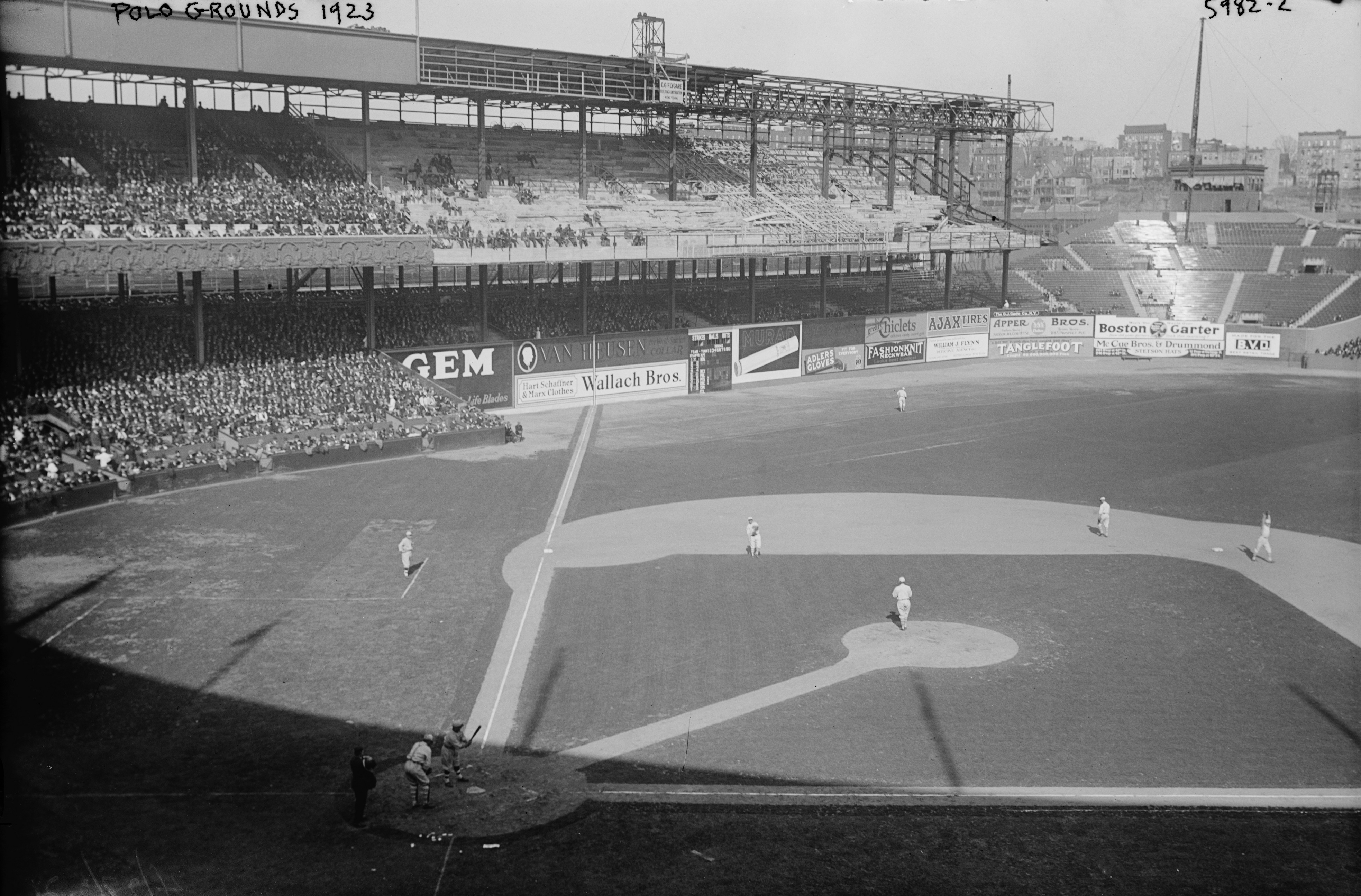 The Polo Grounds in 1923. Photo courtesy of Library of Congress, George Grantham Bain Collection.